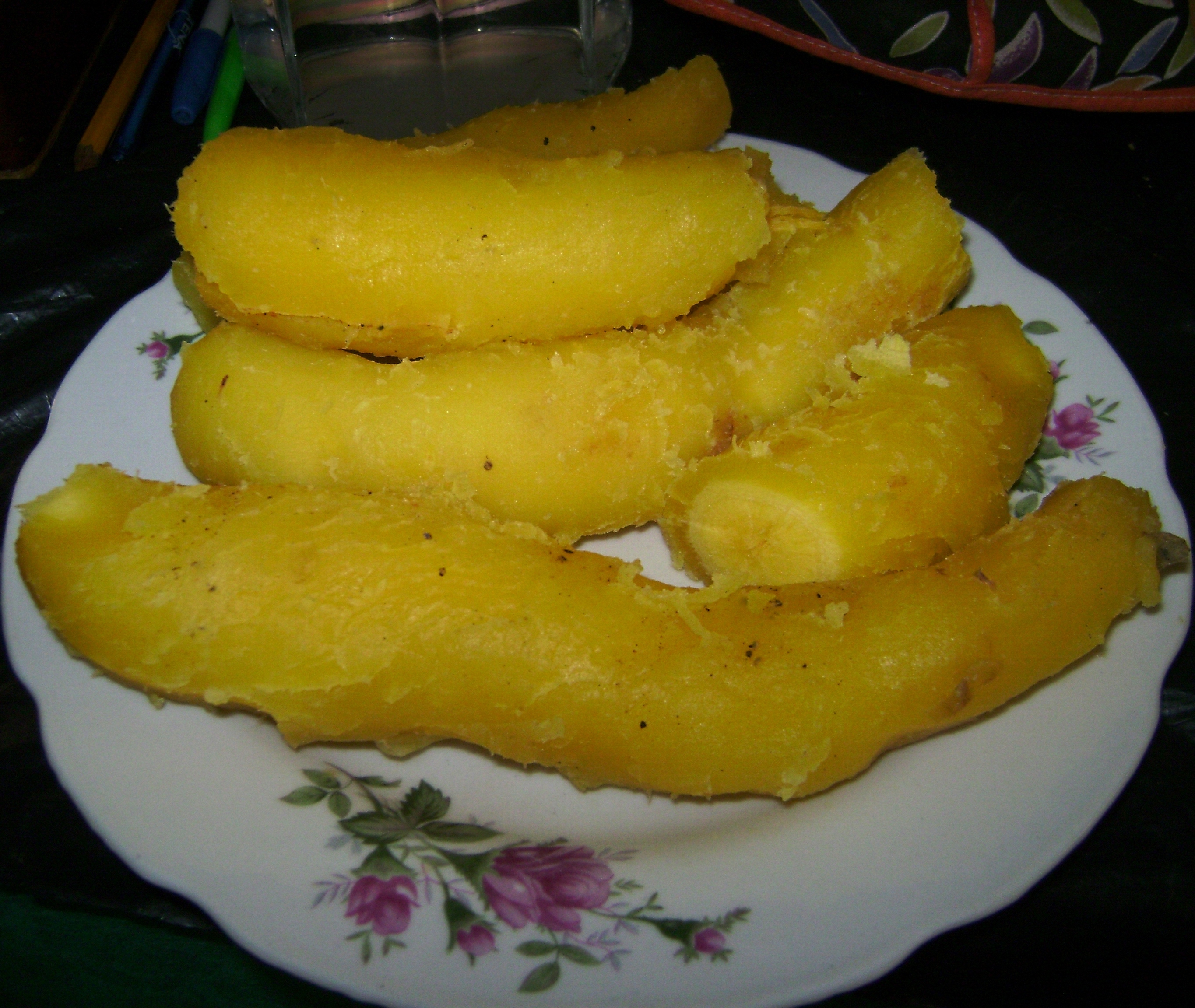 Arracacia xanthorrhiza from Peru (boiled and peeled).